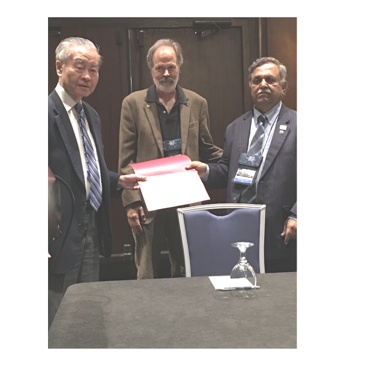 Dr Brooks and Dr SS Iyengar